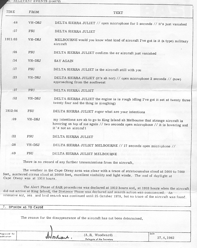 Australian Department of Transportation report on the Valentich Disappearance (page 3).